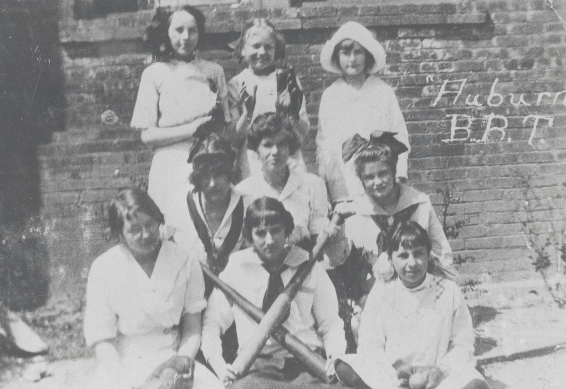 The Auburn High School girls' baseball team, 1910s.